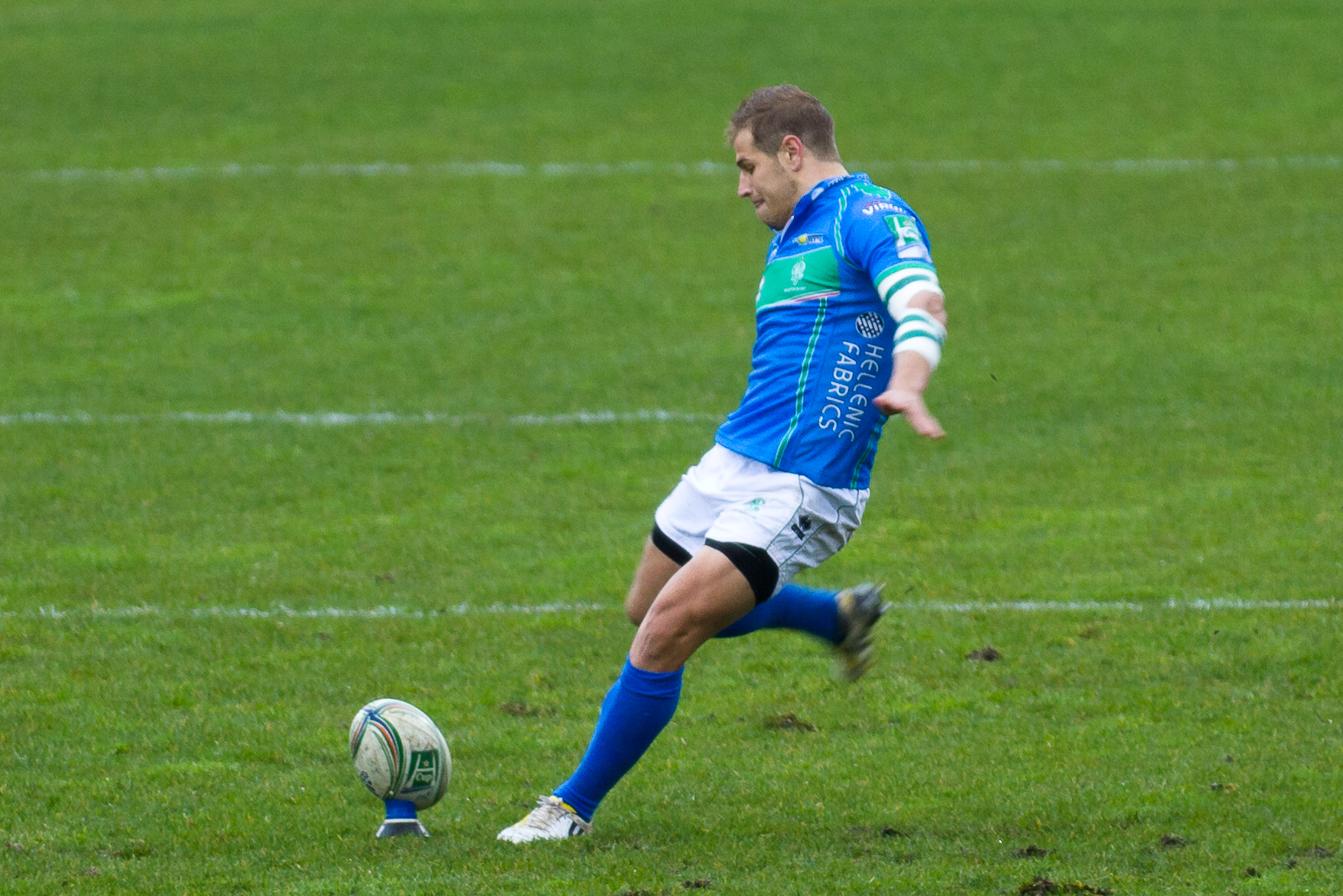 Heineken Cup — 13 January 2013, Stade Ernest-Wallon. Match between: Stade toulousain — Benetton Rugby Treviso Tobie Botes, Stade toulousain vs Benetton Rugby, Heineken Cup, January 13th 2013